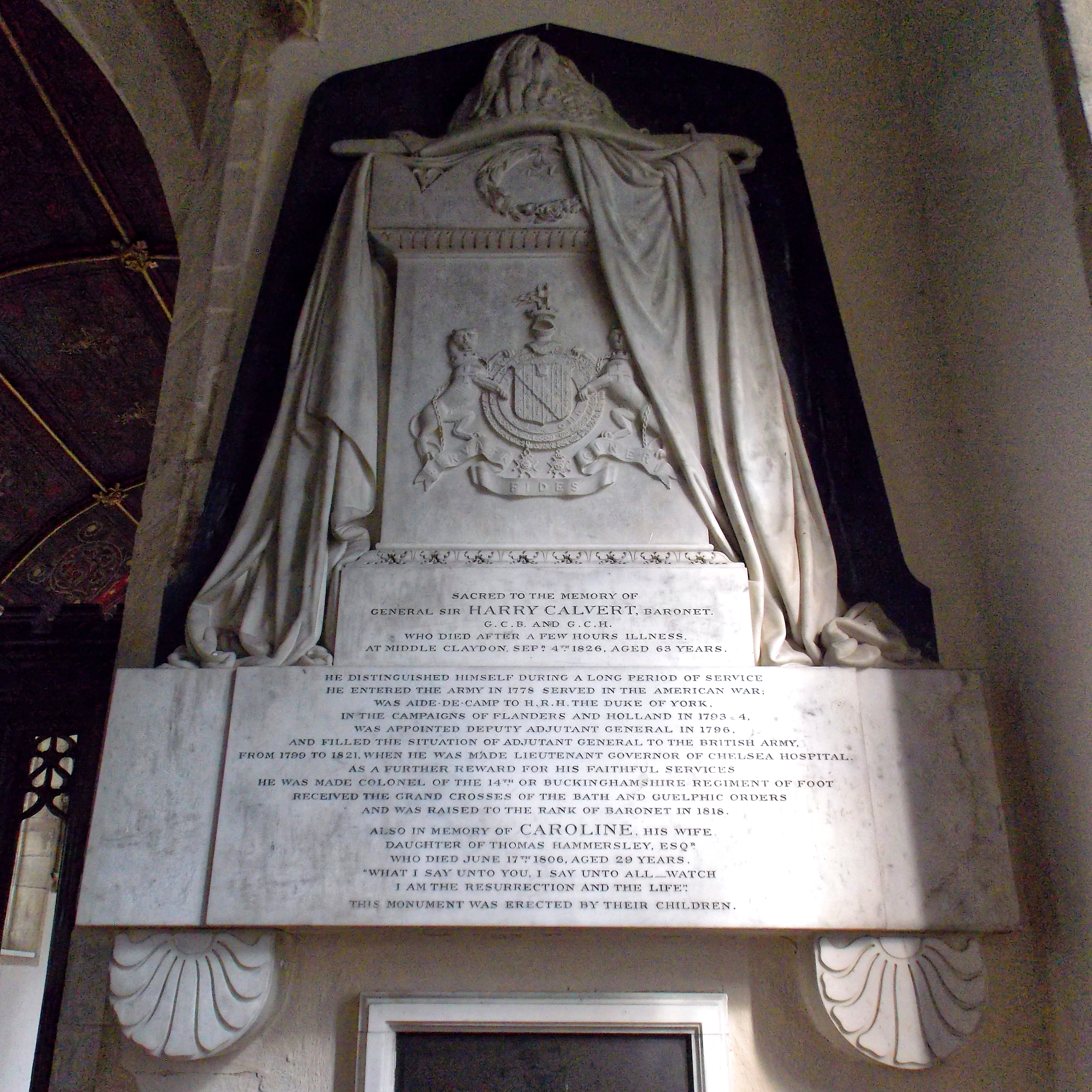 Wall memorial monument to General Sir Harry Calvert and Caroline, his wife, against the chancel arch of the parish Church of All Saints, Middle Claydon, Buckinghamshire, England.Software: JPEG file optimized and/or cropped and/or spun with DxO OpticsPro 10 Elite and Adobe Photoshop CS2.